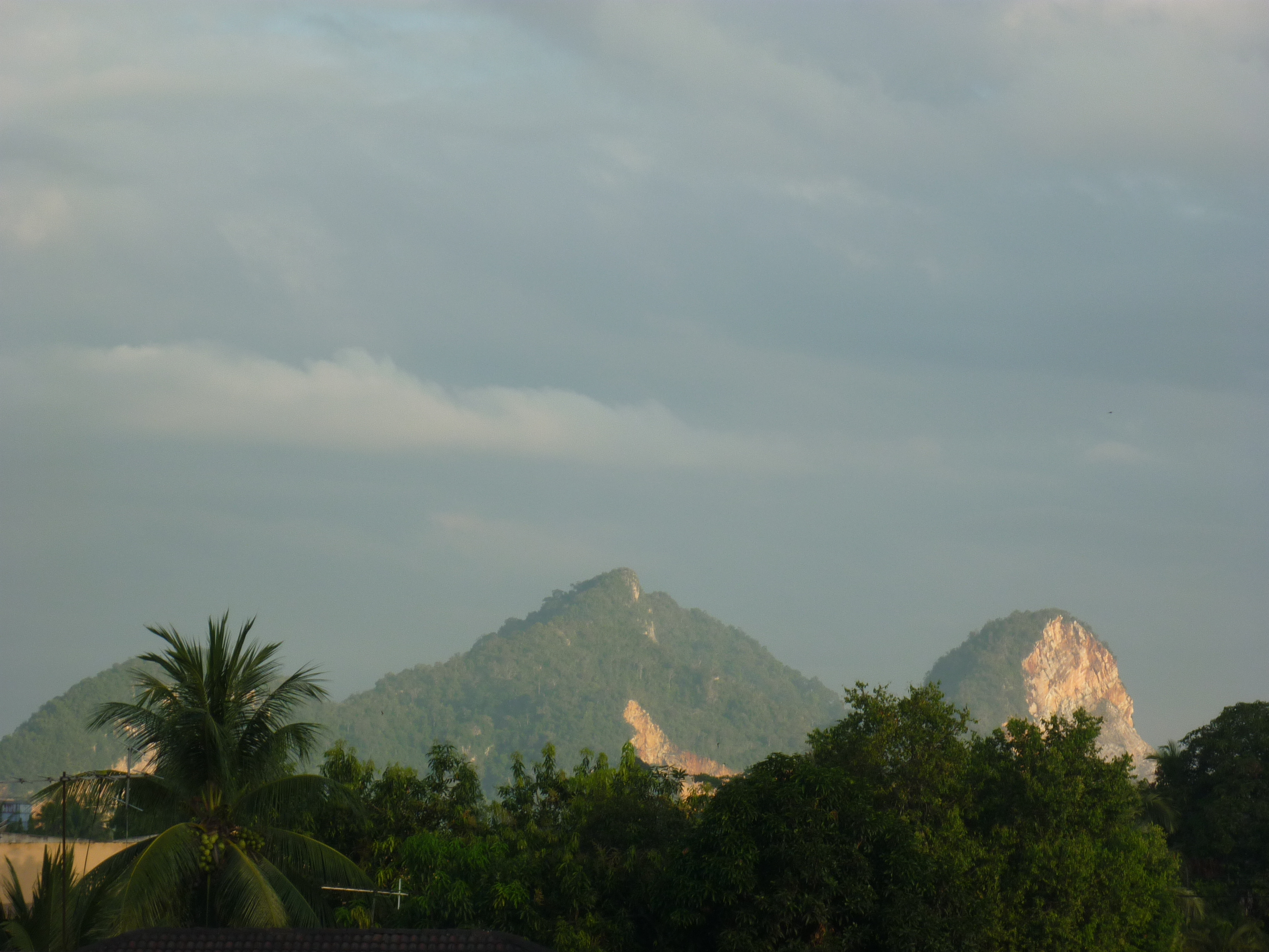 Village